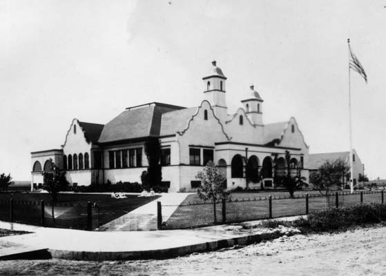 Compton High School's original building in 1912.